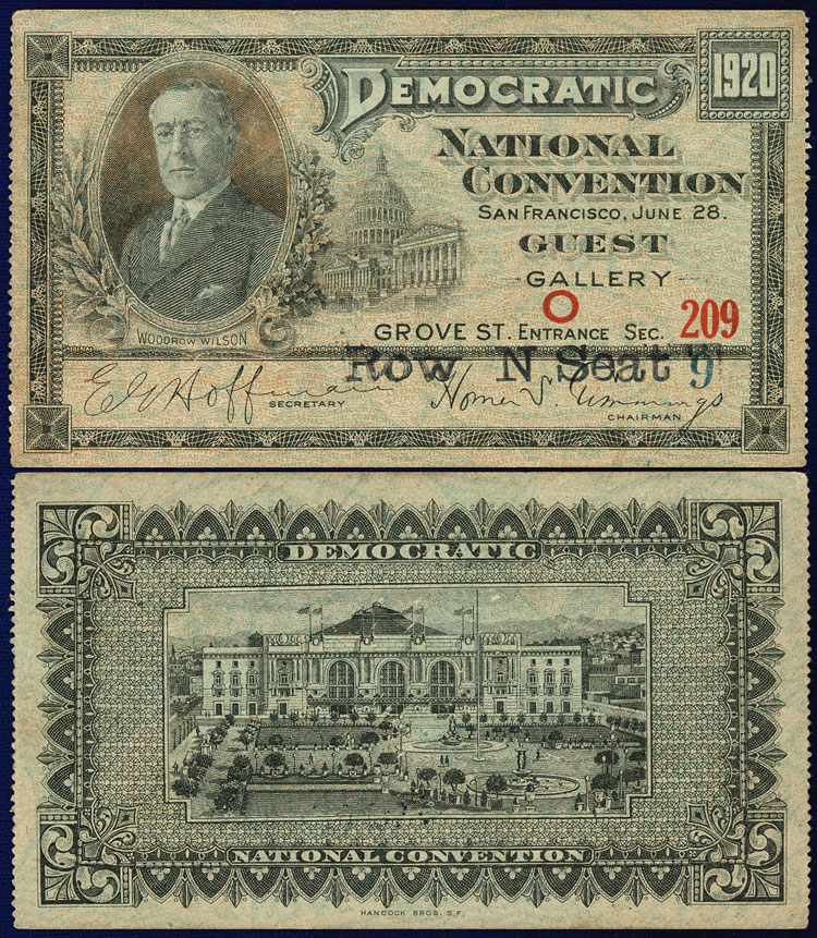 Guest pass, en:1920 Democratic National Convention held in San Francisco; pass is for June 28, 1920; published by "Hancock Bros., S.F.", according to bottom of the back side of the pass